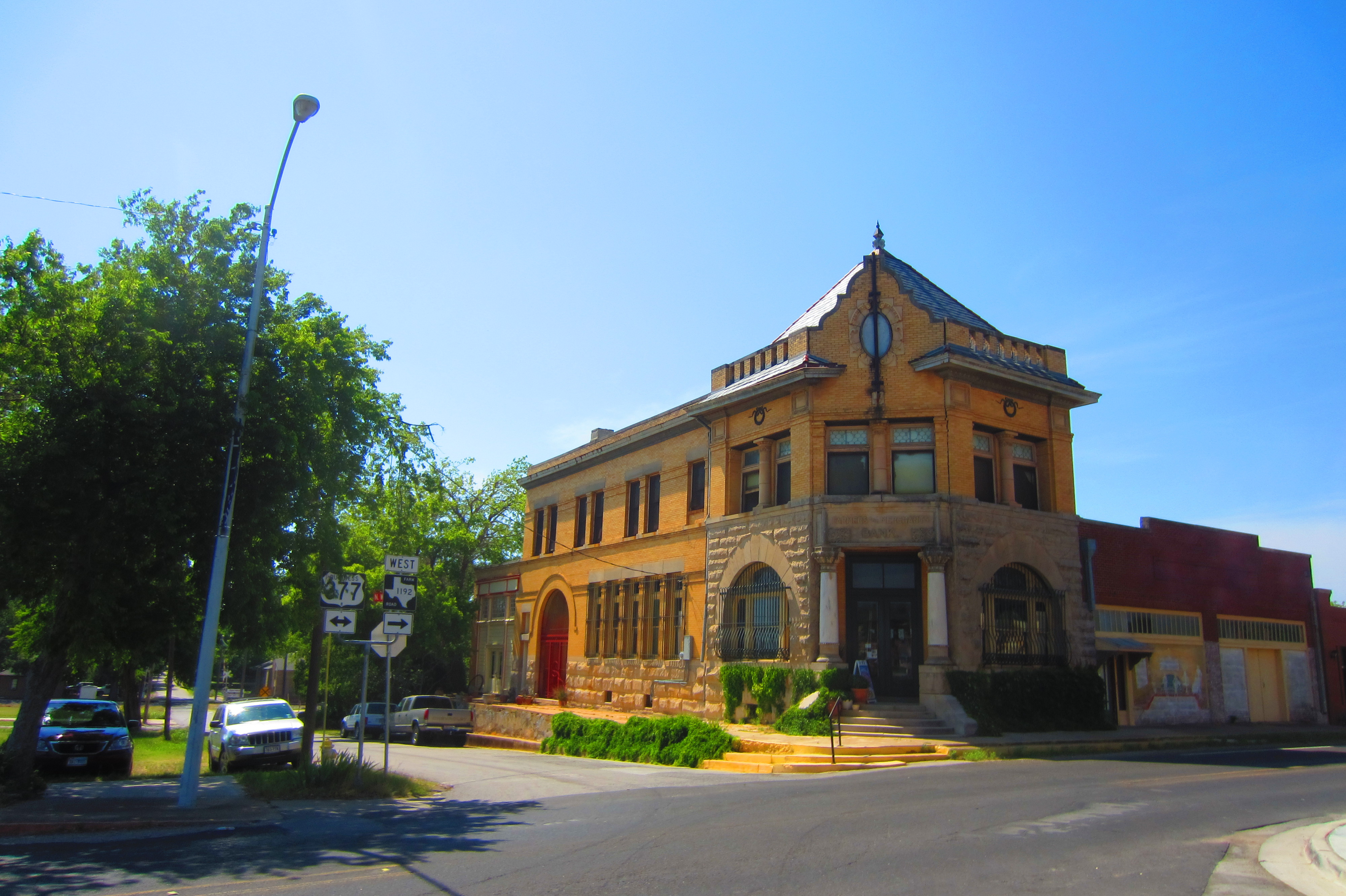 Farmers and Merchants Bank building, located at the northwest corner of the town square in Pilot Point, Texas.